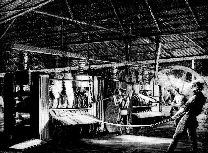 Engraving showing operation of the rolling mill at the Fitzroy Iron Works c 1868. The foreground shows the 'finishing stand', and the 'roughing stand' is in the background. The following description is taken from "Shews the operation of rolling, the same pile into two stages, viz., on the right hand of, the engraving the pile is represented when it is being passed through the first pair or roughing rolls, and on the left hand when it is leaving the second pair or finishing rolls. Different sets of rolls are required for different forms of finished iron, and they are changed accordingly, the form and size of the piles being also regulated to suit the different kind of rolls. In the left hand corner at the foot of the roll , standards are two slabs, which is one of the forms into which puddled iron is rolled to produce boiler and other plates"